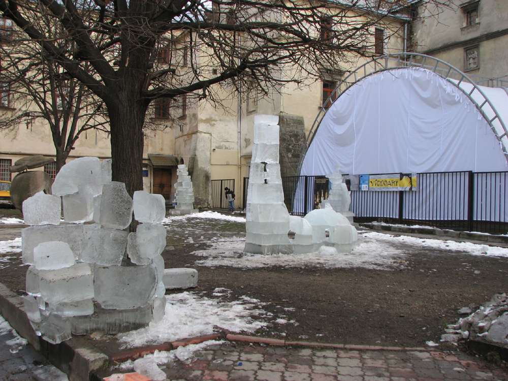 Bernardine church and monastery in Lviv